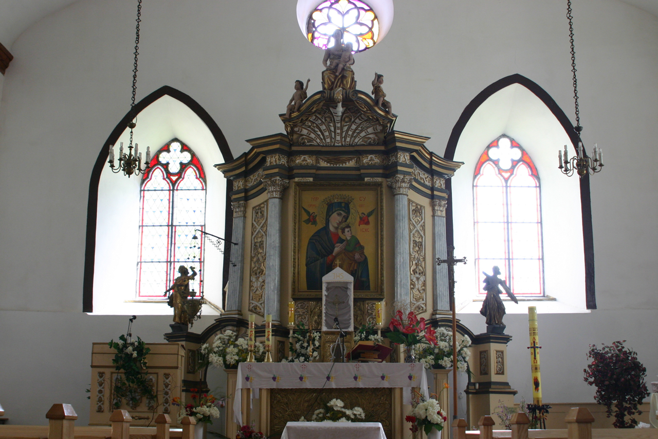 Winda - OpenStreetMap(Info)